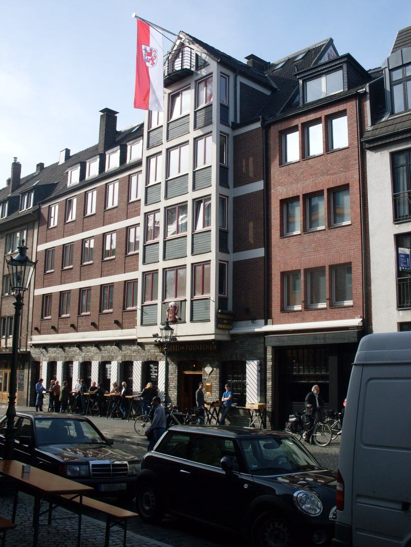 Fuechschen Traditional Brewery, Old Town Duesseldorf, Germany